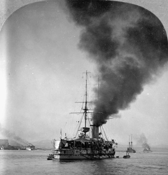 "H.M.S. Exmouth", flagship of Admiral Sir Asshton Curzon-Hardy, Quebec Tercentenary.